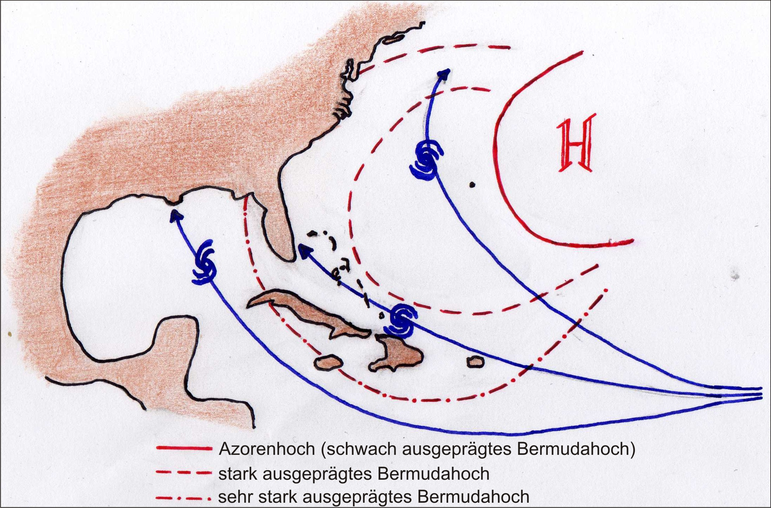 The path of tropical cyclones depending on the strength of the Bermuda High.